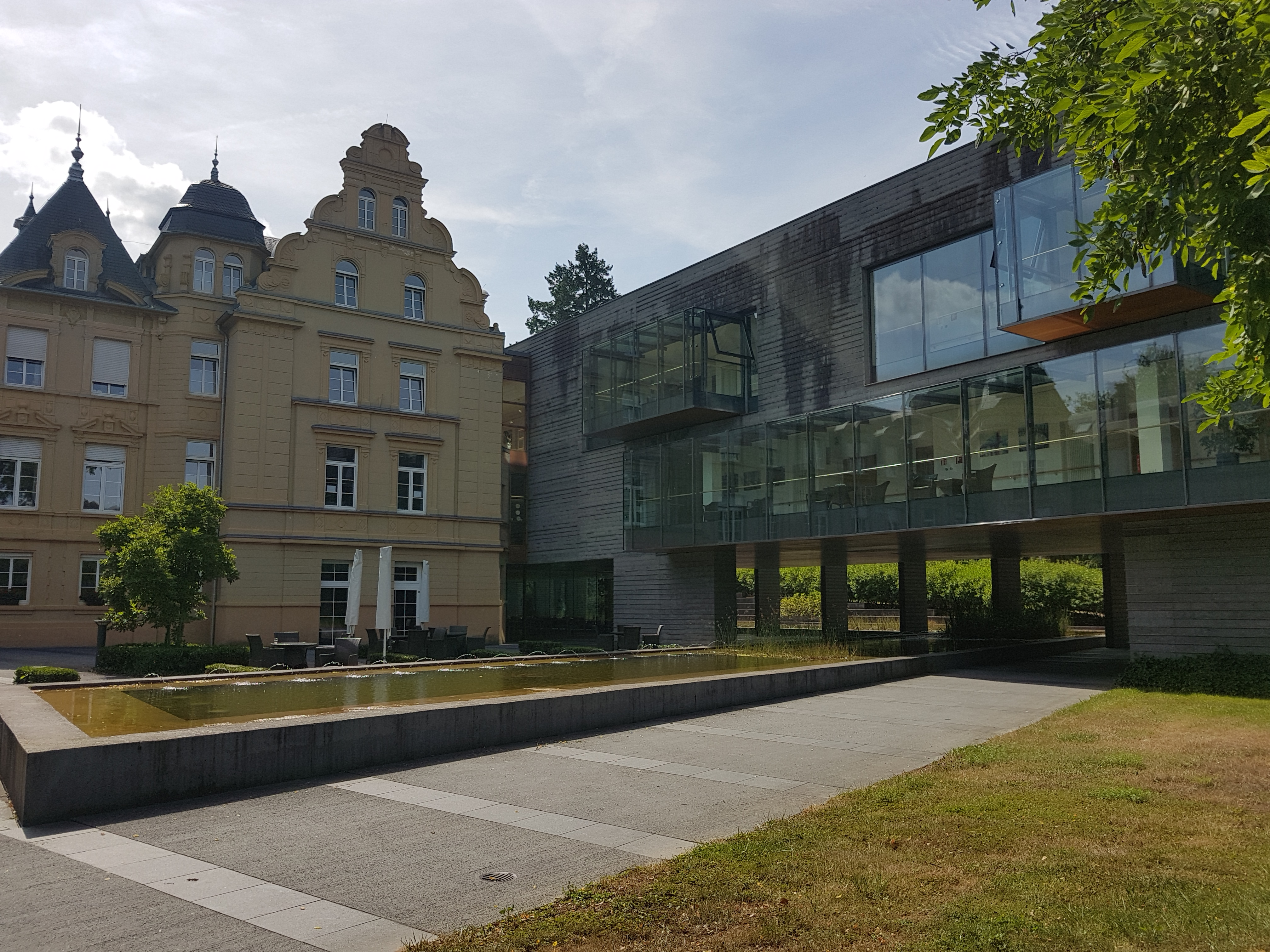 Modern extension to the castle, completed in 2007. Designed by the architectural office Hermann & Valentiny. Castle Heisdorf in Luxembourg is built in Renaissance style (Rambouillet style, see: Rambouillet Castle). Heisdorf (Luxembourgish: Heeschdref)is a district of the Luxembourg municipality of Steinsel (Luxembourgish: Steesel). This existing architecture was taken over more or less by the other extensions or it was more or less successful trying to take into account. Owners of the castle since 1917 are the sisters of the Christian doctrine who run a retirement home here.